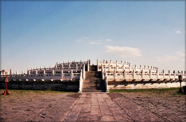 Circular Mound Altar